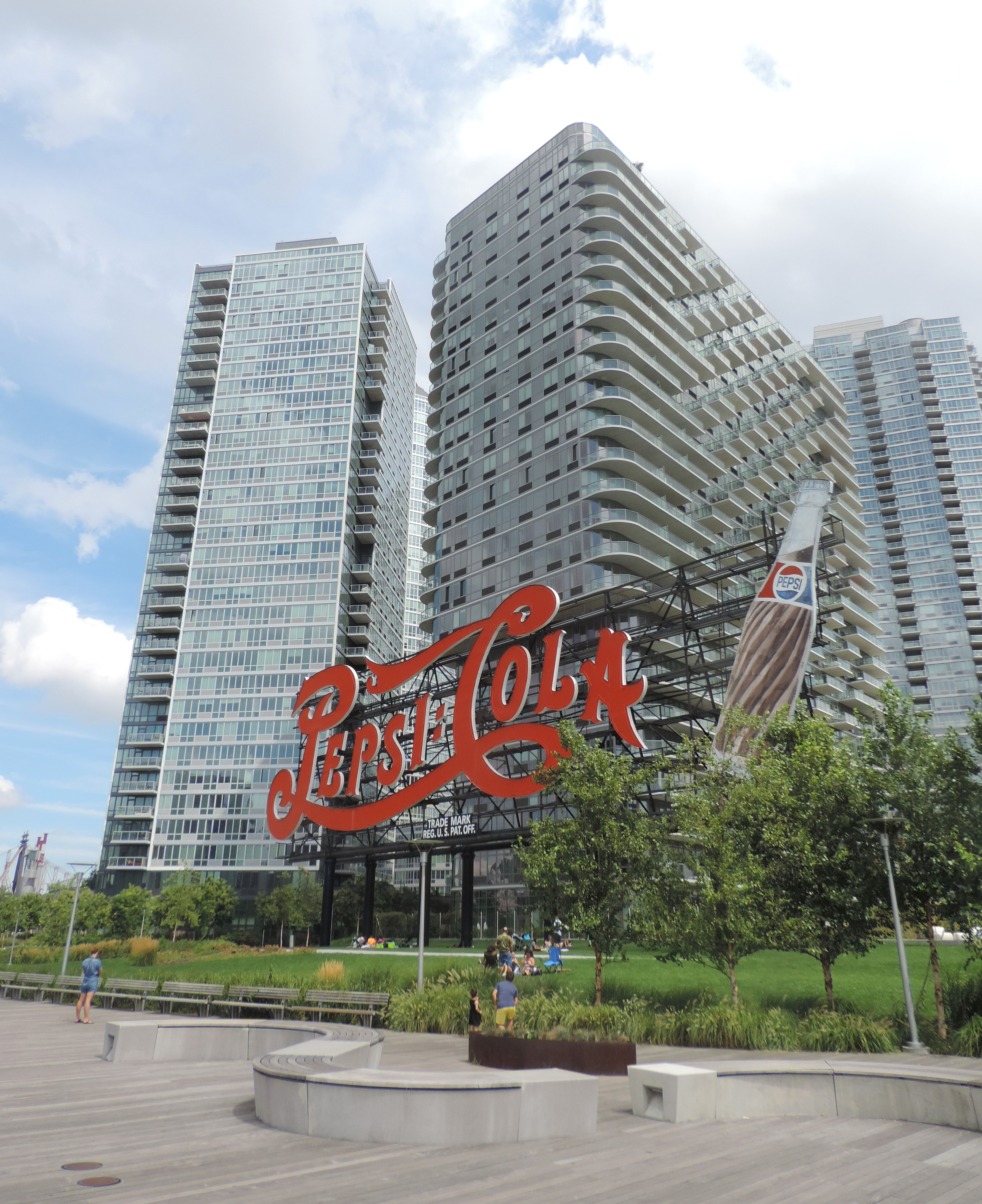 Looking east at sign and apartment houses